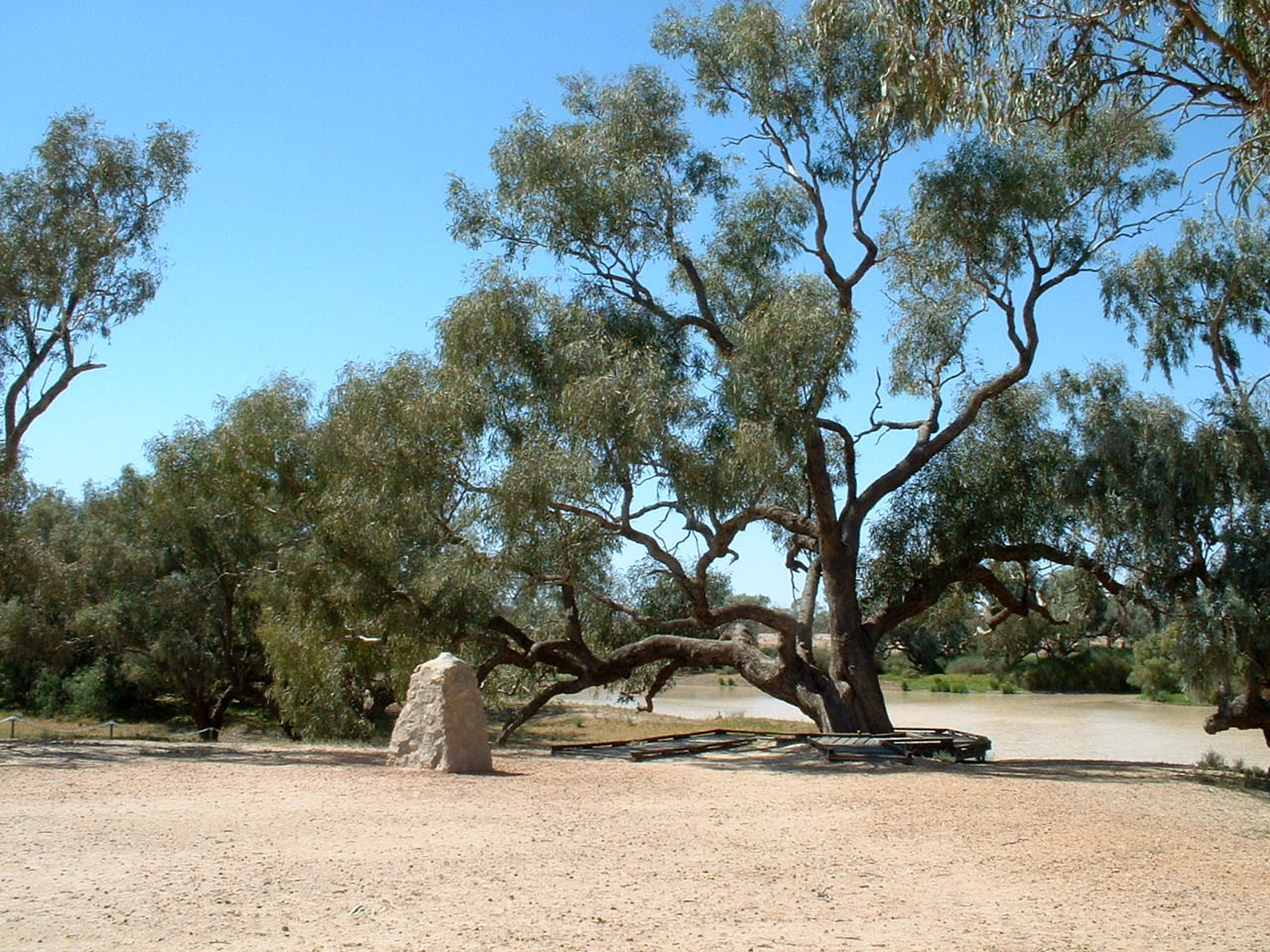 The Burke and Wills Dig Tree at Bullah Bullah Waterhole, on Coopers Creek, Queensland, Australia.